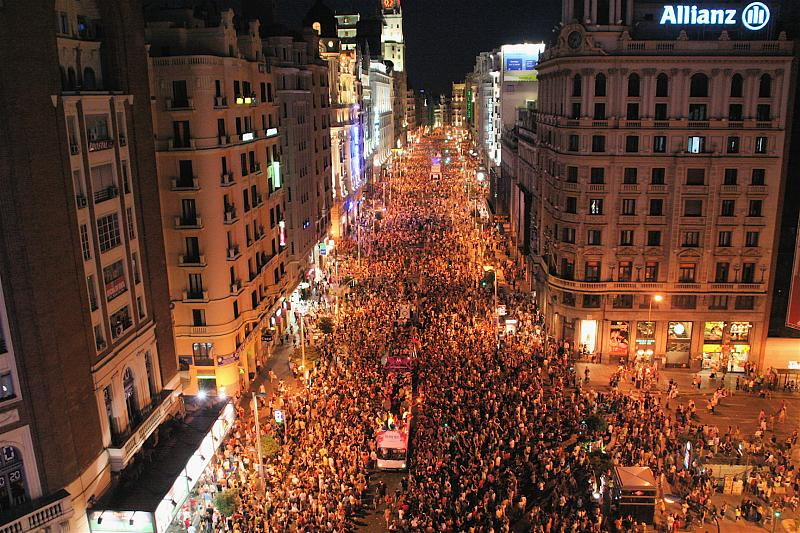 View of the Gran Vía (a downtown avenue) in Madrid (Spain) from Plaza del Callao (square) during the Gay Pride Parade.